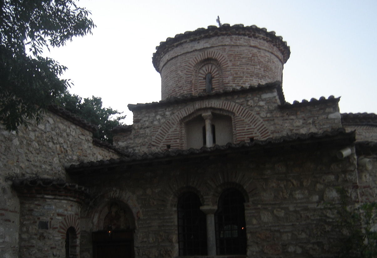 The Orthodox Church of Kimissi tis Theotokou in Kondariotissa. Dated since 10th-11th century,it is one of the oldest Orthodox churches in Pieria prefecture, Greece.